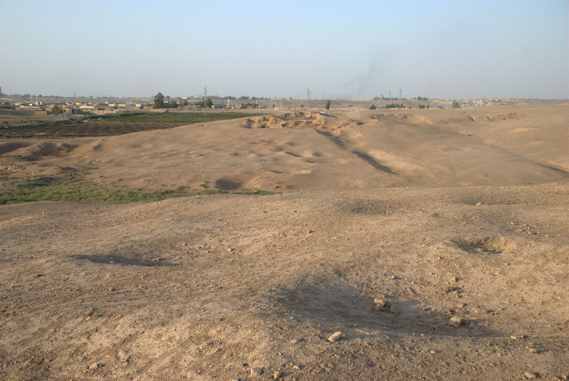 Tuttul, Tell Bia, near ar-Raqqah, Syria. Southwest corner to north